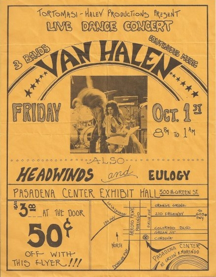 1976 Van Halen concert flyer handed out at La Cañada High School lunch show, Pasadena